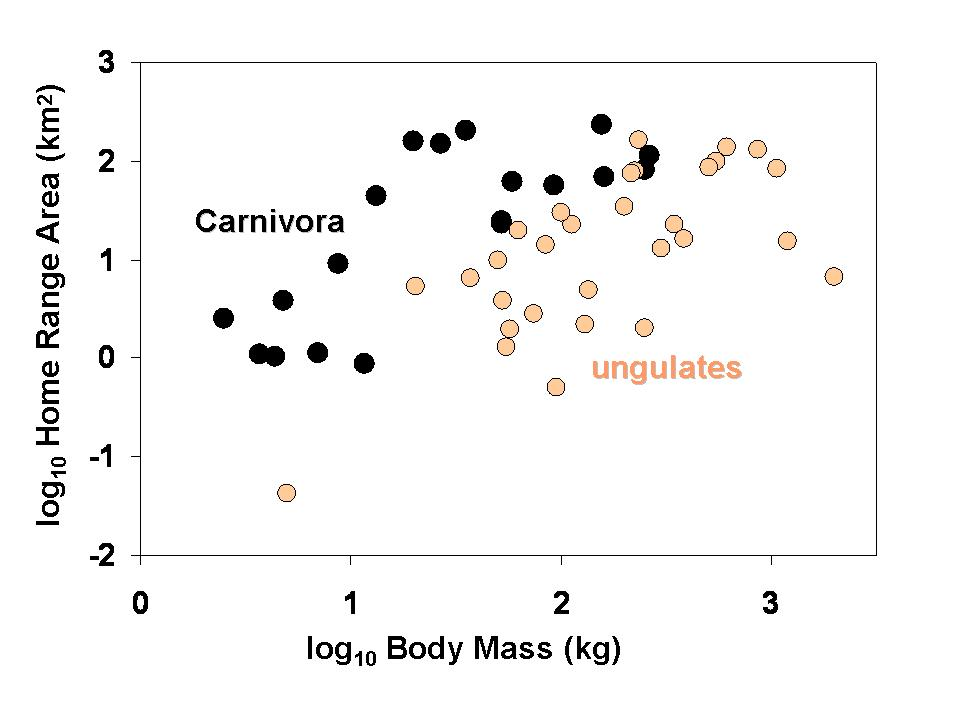 Theodore Garland, Jr. Original figure, redrawn from data presented in Garland, T., Jr., A. W. Dickerman, C. M. Janis, and J. A. Jones. 1993. Phylogenetic analysis of covariance by computer simulation. Systematic Biology 42:265-292.